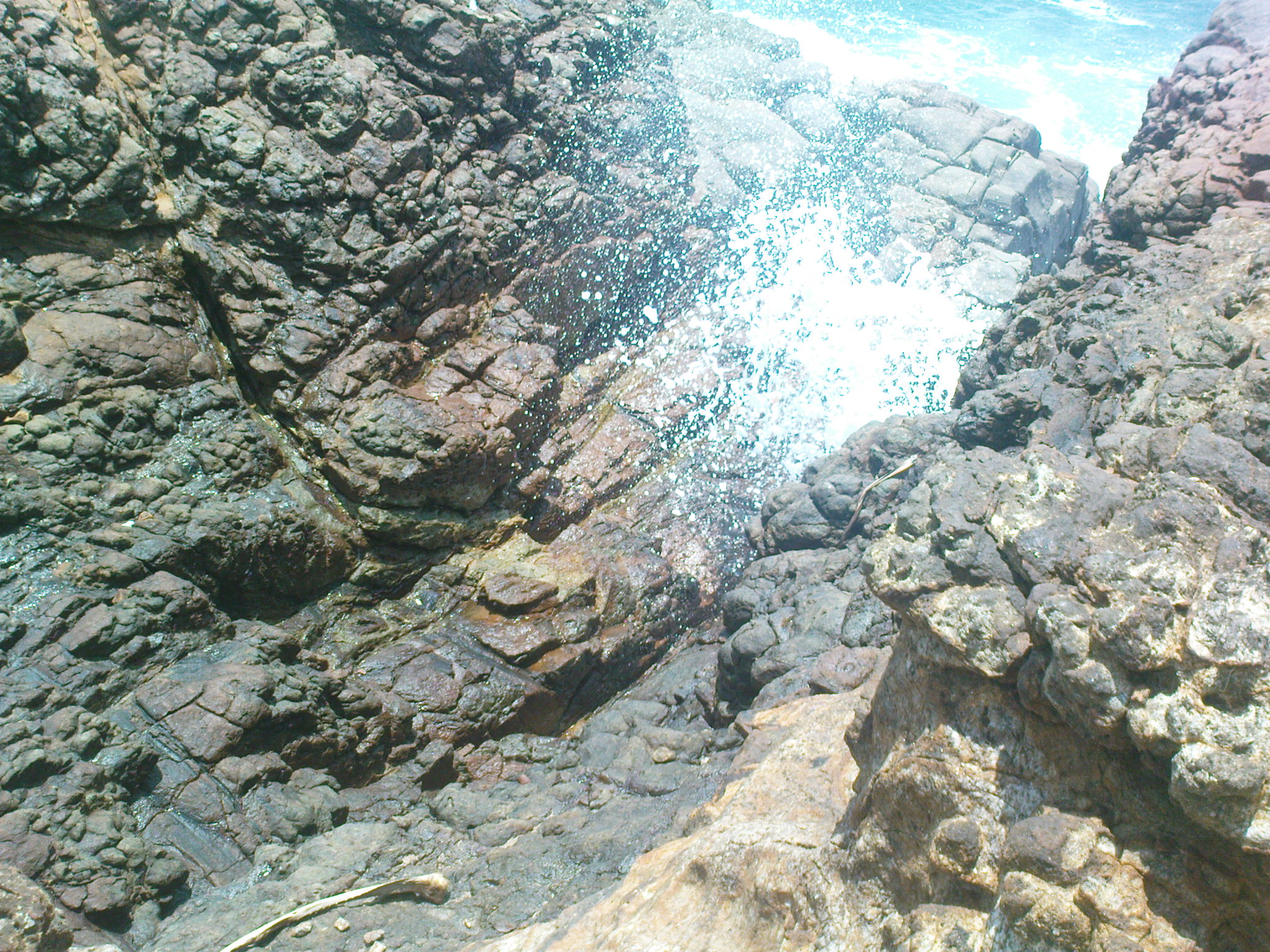 Hummanaya blowhole - Kudawella, Sri Lanka සිංහල: හුම්මානය - කුඩාවැල්ල, ශ්‍රී ලංකාව